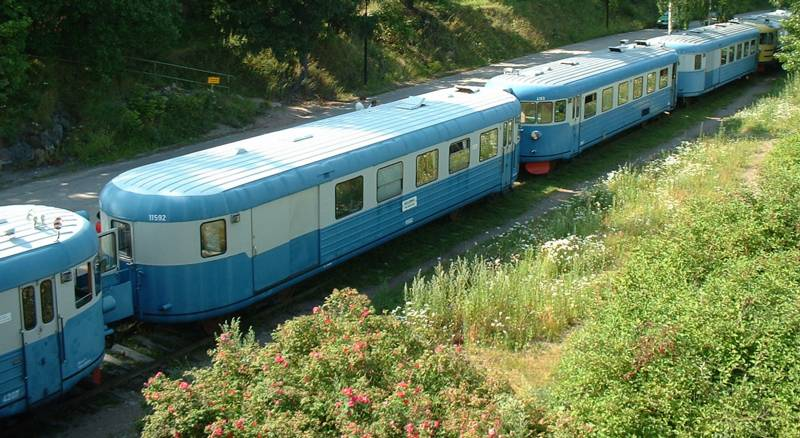 A Porvoo Museum Railroad train at Porvoo station, consisting of three preserved Dm7 DMUs and two preversed EFiab-class cars.